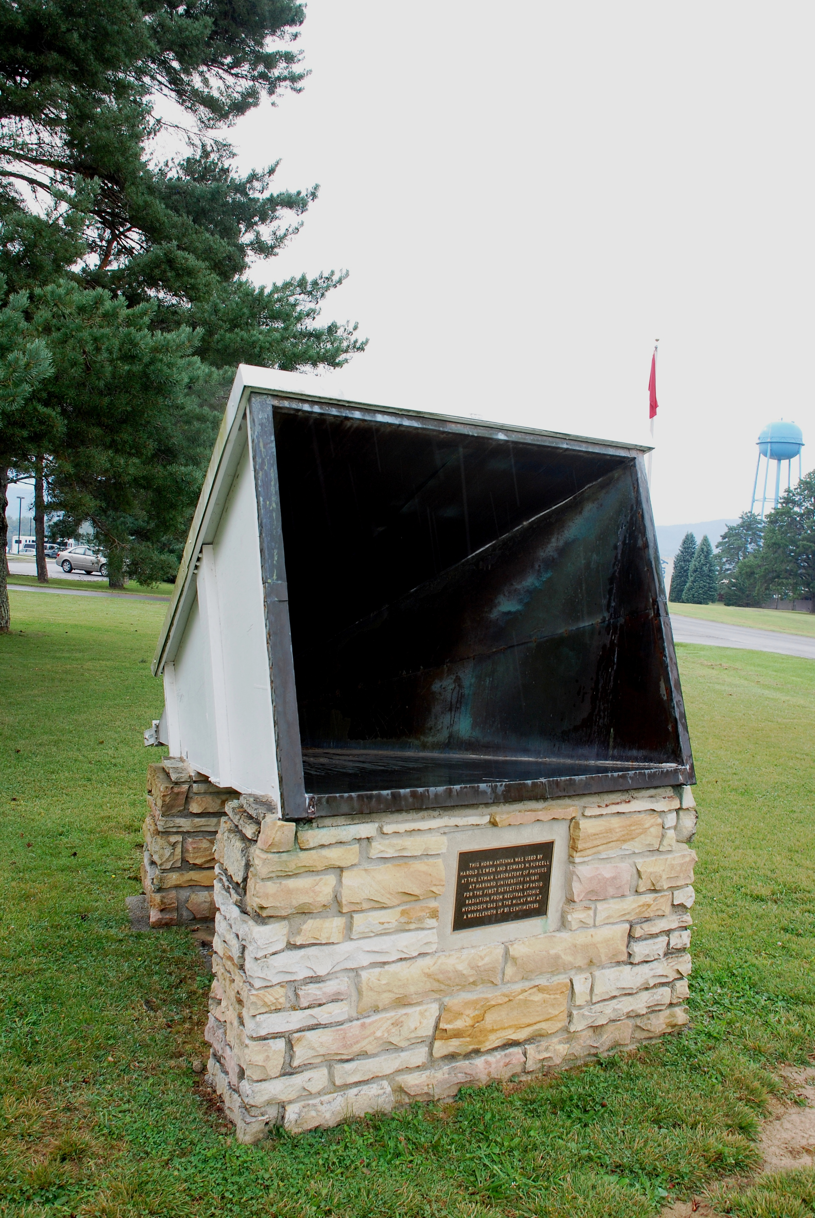 Horn antena used by Harold L. Ewen and Edward M. Purcell at the Lyman Laboratory of Physics at Harvard University in 1951 for the first detection of radio radiation from nuclear atomic hydrogen gas in the milky Way at a wevelength of 21 centimeters. Now at National Radio Astronomy Observatory in Green Bank, West Virginia.